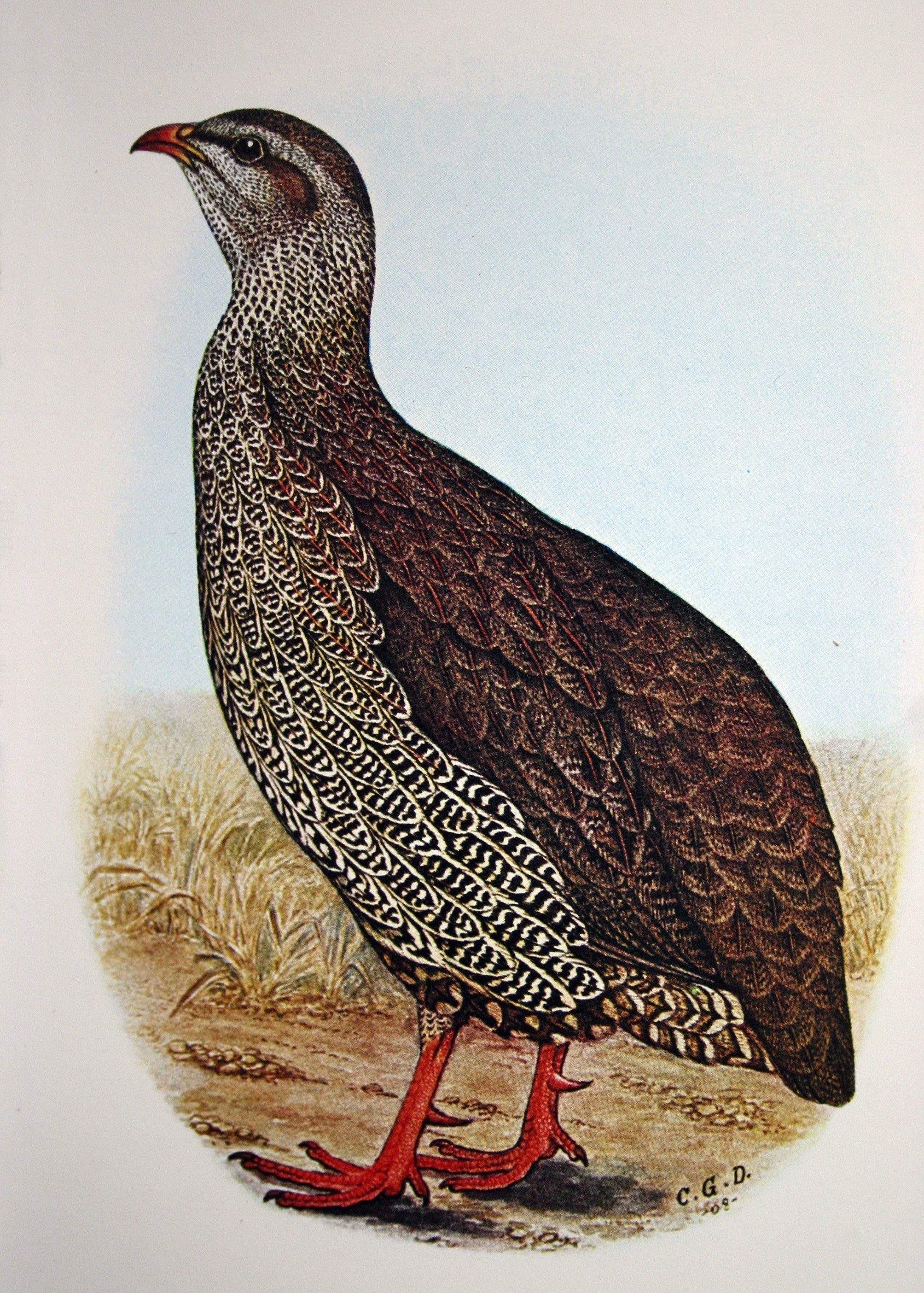 Pternistis natalensis (syn. Francolinus natalensis) - Natal Spurfowl